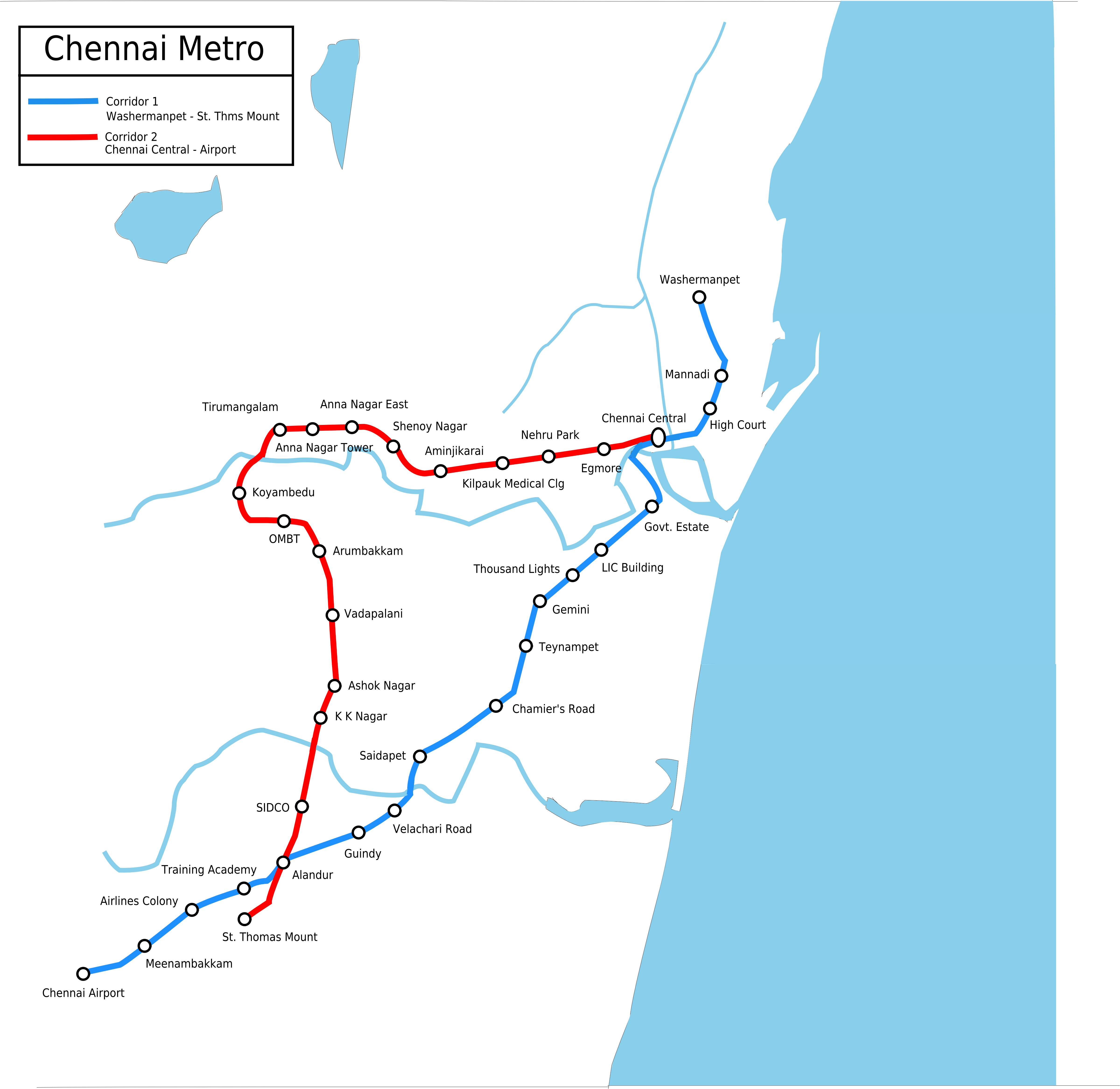 Map of Chennai Metro created using Inkscape.